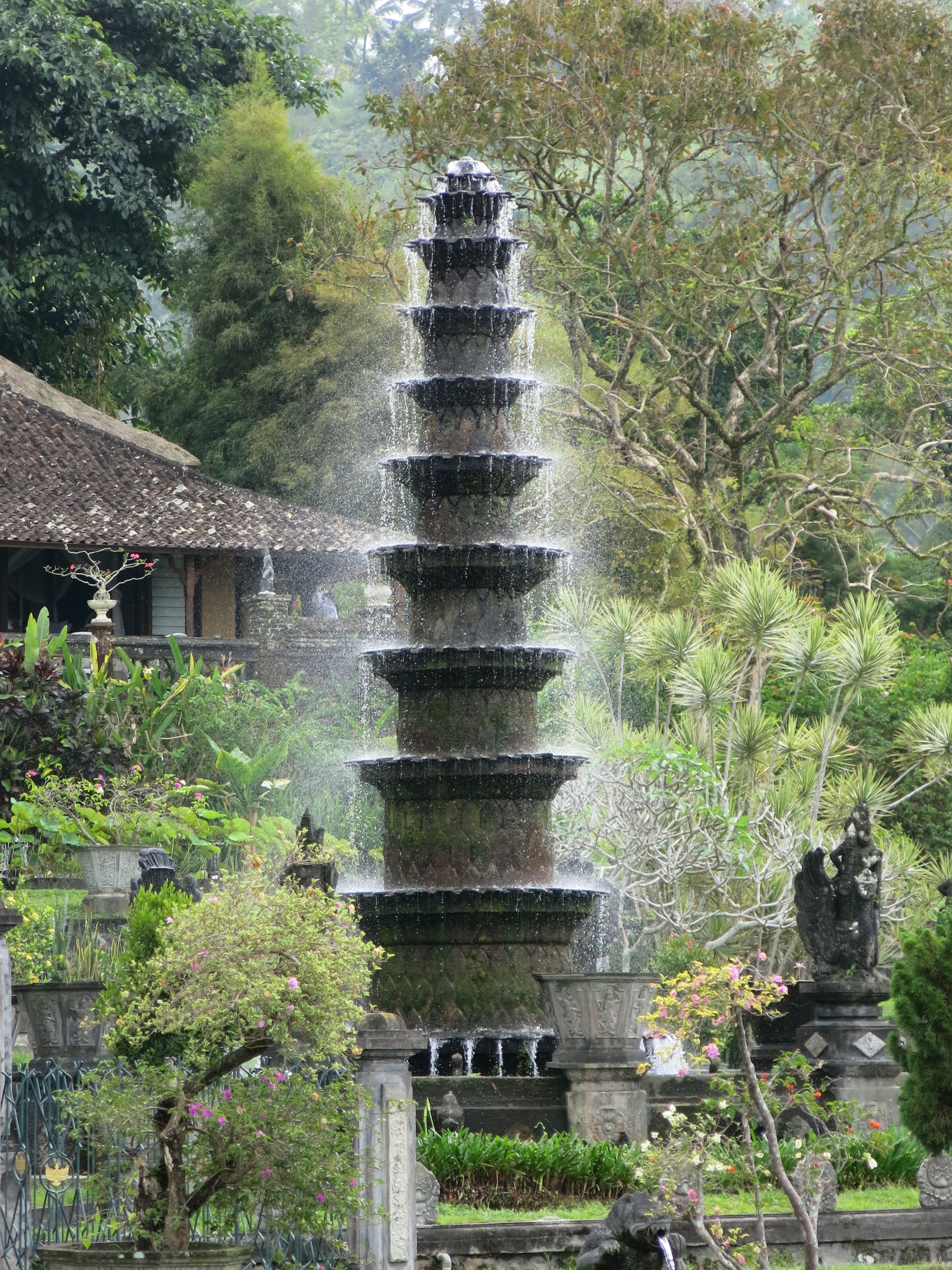 Eleven tiered fountain of Tirta Gangga water palace